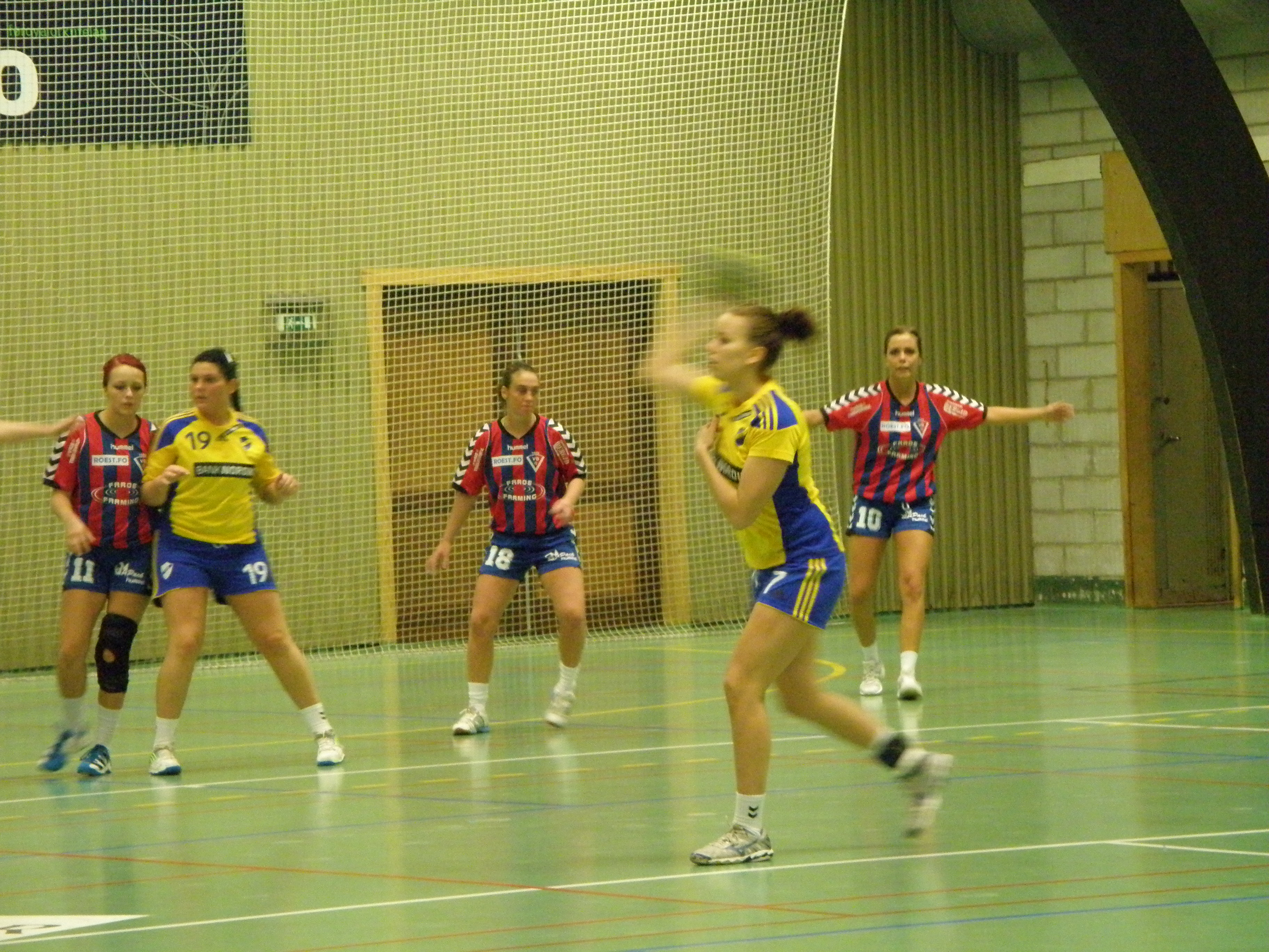 Faroese handball match in the women's best division, Sunset Deildin, between VB from Vágur and VÍF from Vestmanna. VB won the match 33-16. Tha match was played in Vágshøll, Vágur, on 27 November 2011. VB's players are in red/blue stripes, VÍF's players are in yellow and blue. Føroyskt: Hondbóltsdystur í Sunsetdeildini (kvinnur) 27. november 2011. Dysturin varð leiktur í Vágshøll millum VB og VÍF. VB vann dystin 33-16. VB kvinnurnar á myndini eru frá vinstru: Una Egilsdóttir, Andrea Nielsen og Helga Eyðunsdóttir Kjærbo.